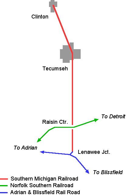 I made it myself for the "Southern Michigan Railroad Society" Wikipedia article.